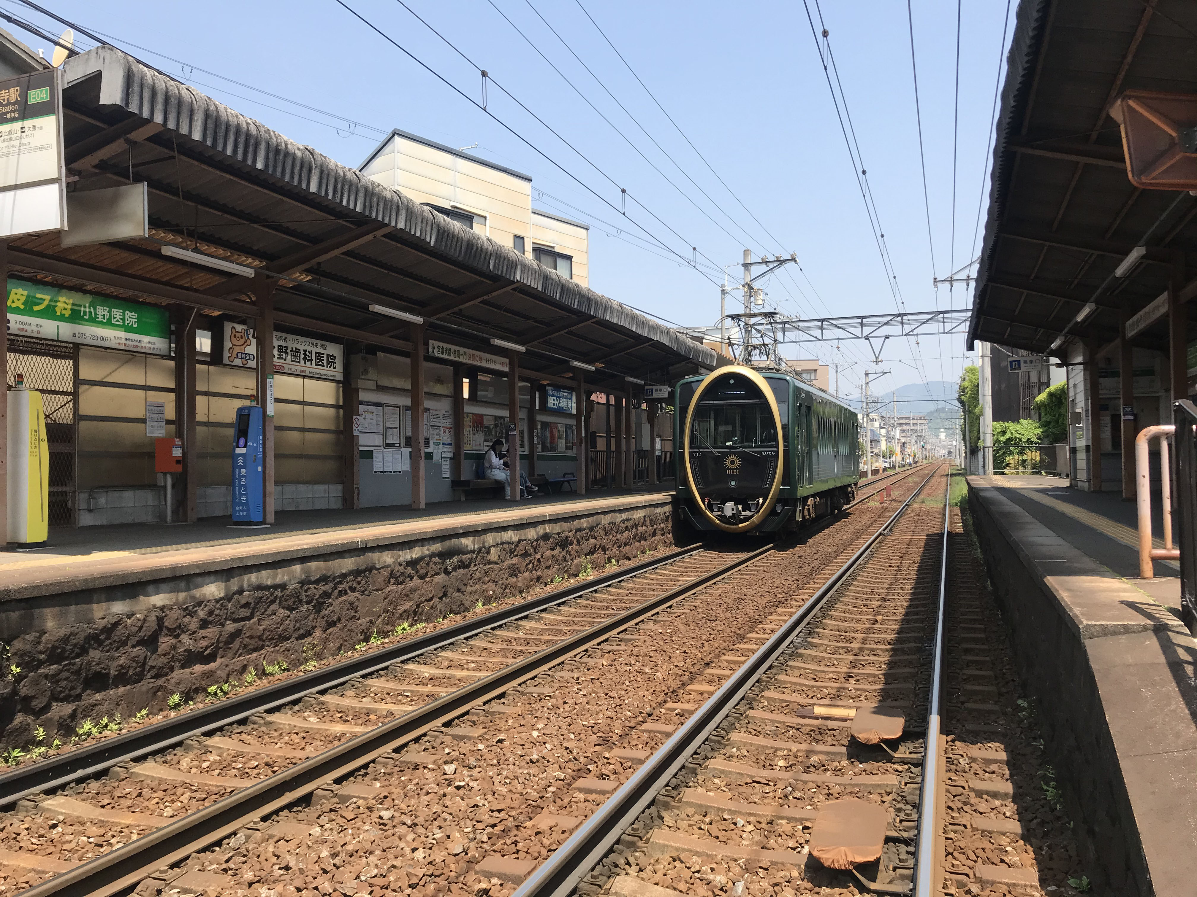 Eizan Electric Railway "Hiei" leaving from Ichijoji station Yase Hieizanguchi bound platform